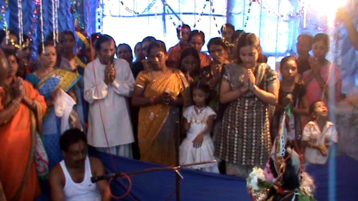 People offering their puja for Goddess Bipodtarini - Mahishilla Colony Asansol